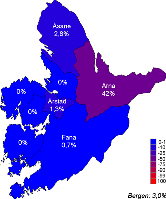 The proportion of nynorsk in primary schools in the municipalities of Bergen, Norway in 2010